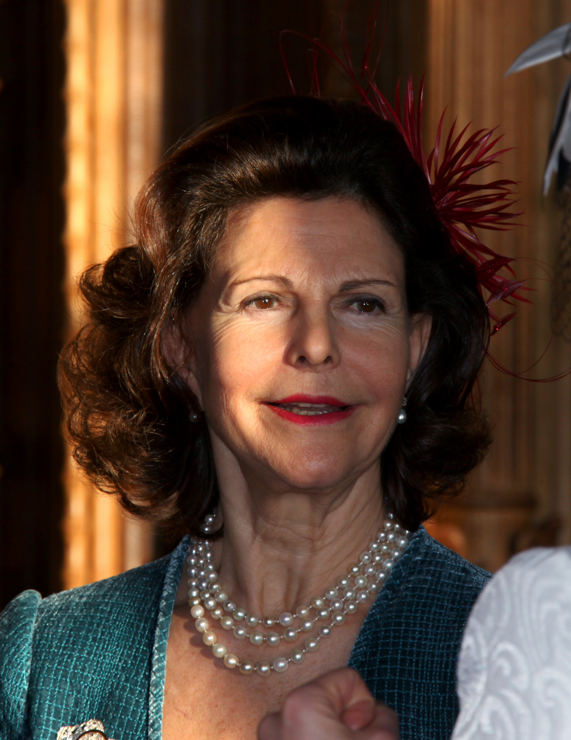 Queen Silvia of Sweden. Luncheon at City Hall. State visit to Stockholm, Sweden, 19-19-20-january-2011